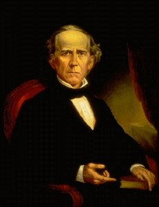 This is an image of an oil portrait of Indiana Governor and U.S. Senator Joseph A. Wright (1810-1867) painted by artist Jacob Cox (1810-1892). The original digital image may be viewed at: [1]